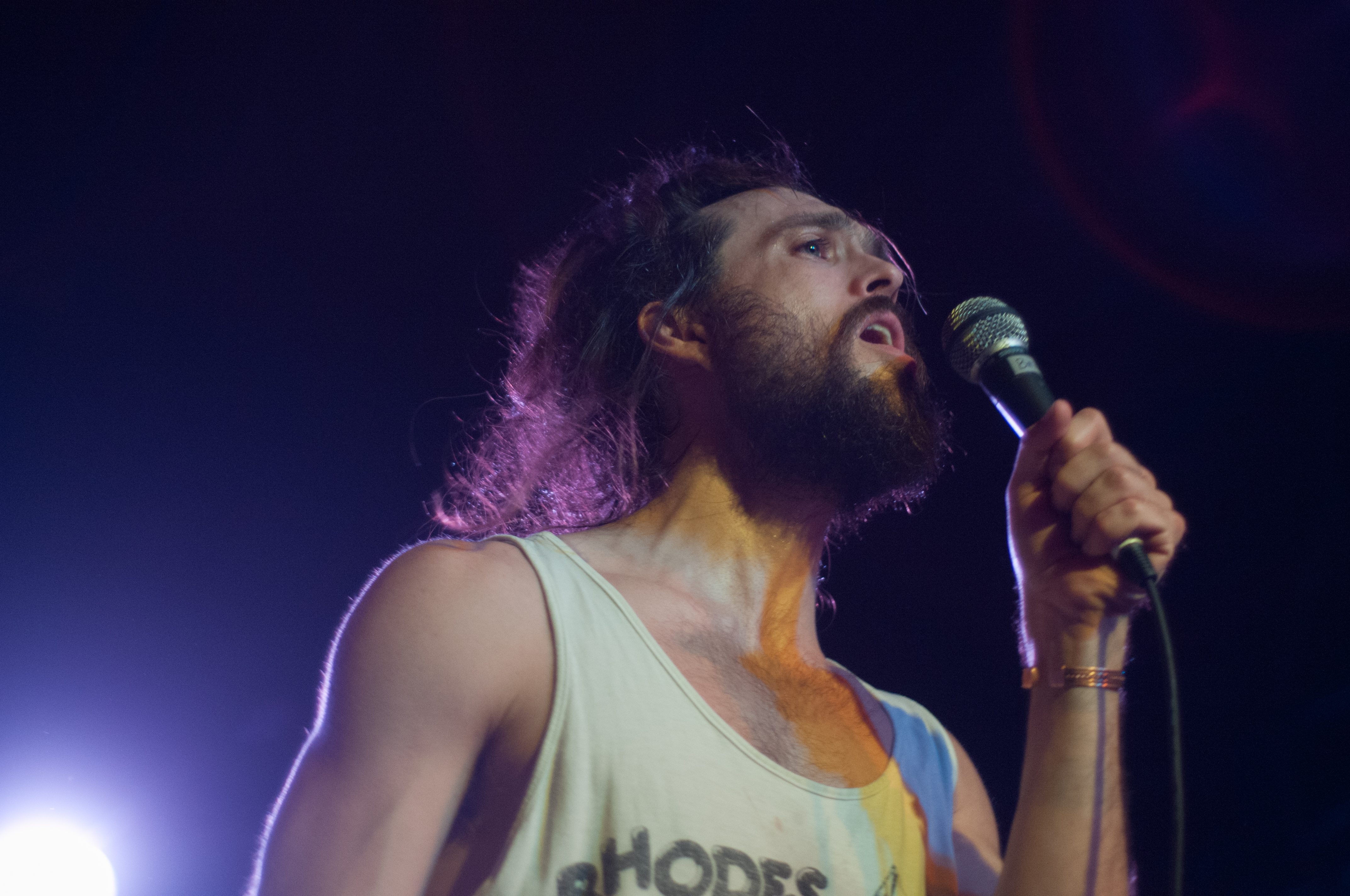 Alex Ebert performing with Edward Sharpe and the Magnetic Zeros in San Diego